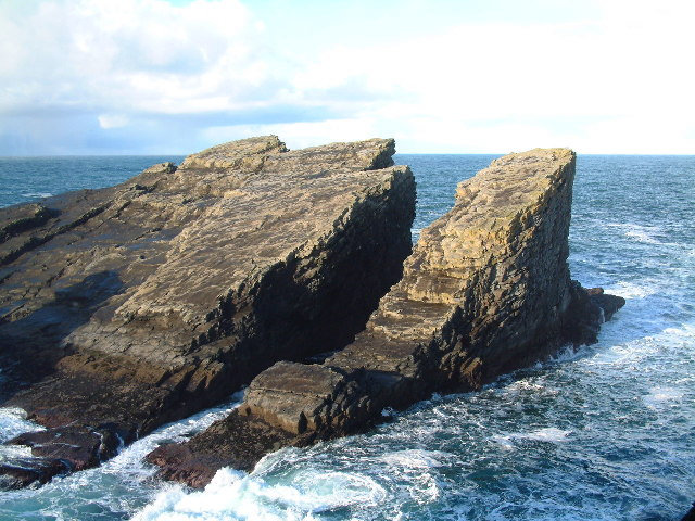 Rocks at Pullen Bay. Rock formation at Pulley Bay, north of Baltard.